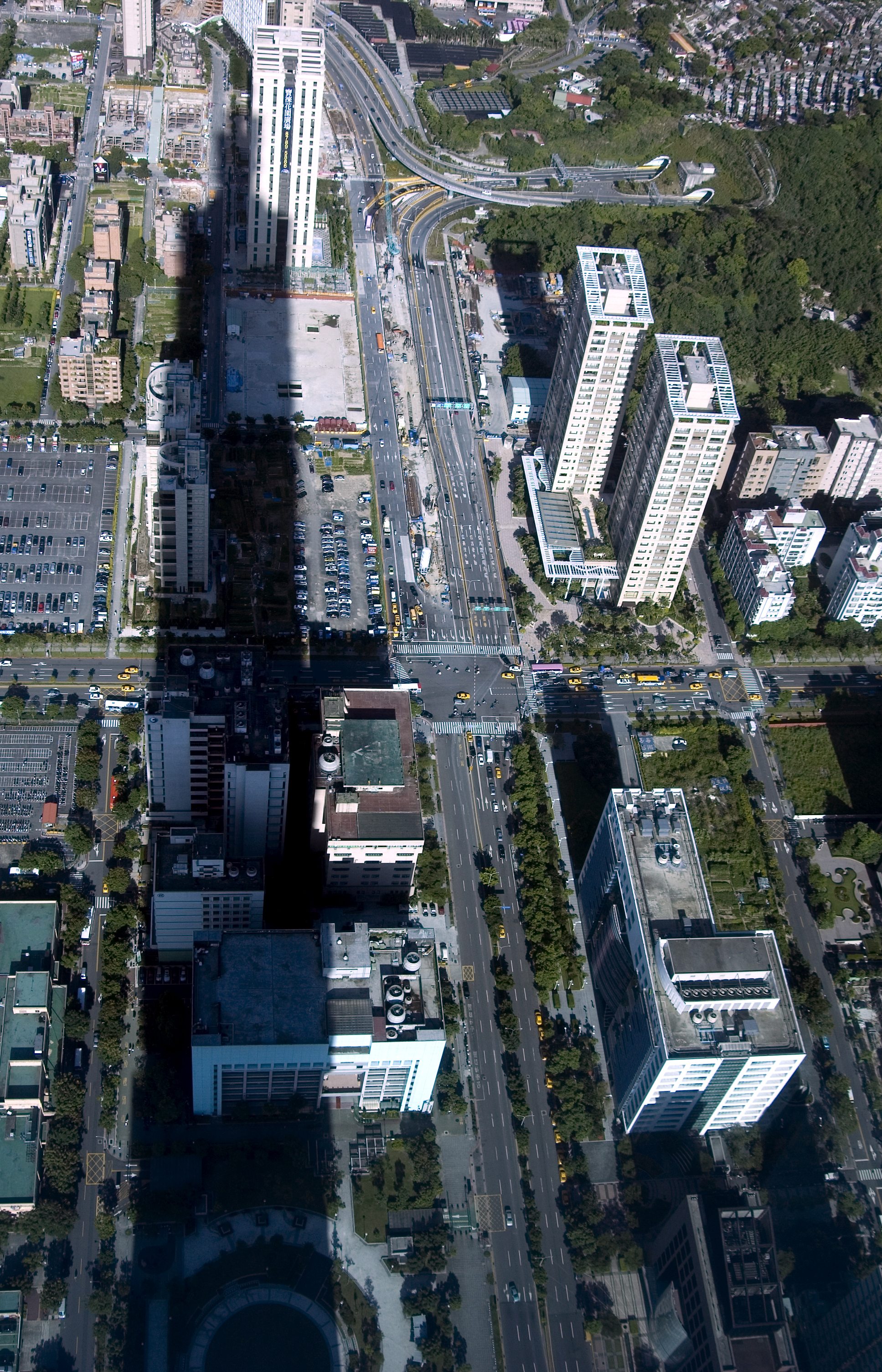 Taipei 101 shadow in the late afternoon. The Clock Park (bottom) acts as a huge sundial, marking hours in the day as the shadow of the tower moves across it. View is from the Indoor Observatory at Floor 89. Taipei, Taiwan.